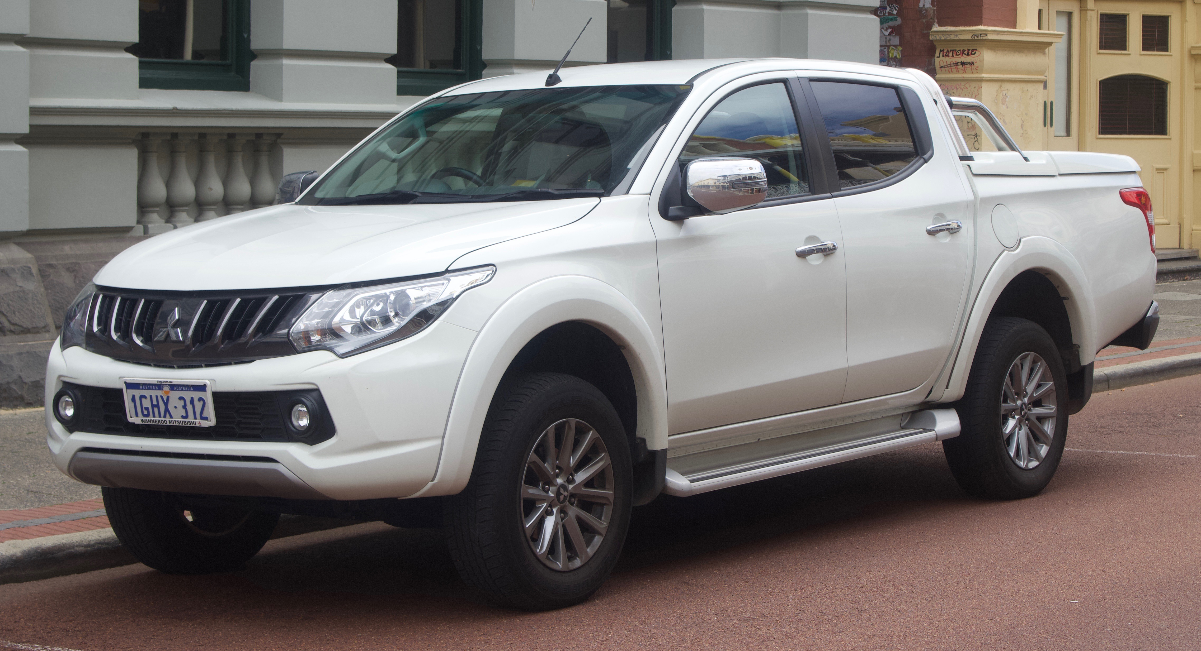 2017 Mitsubishi Triton (MQ MY18) GLS Double Cab 4x4 utility. Photographed in Fremantle, Western Australia, Australia.